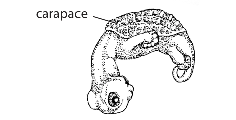 Standard Event System character depiction